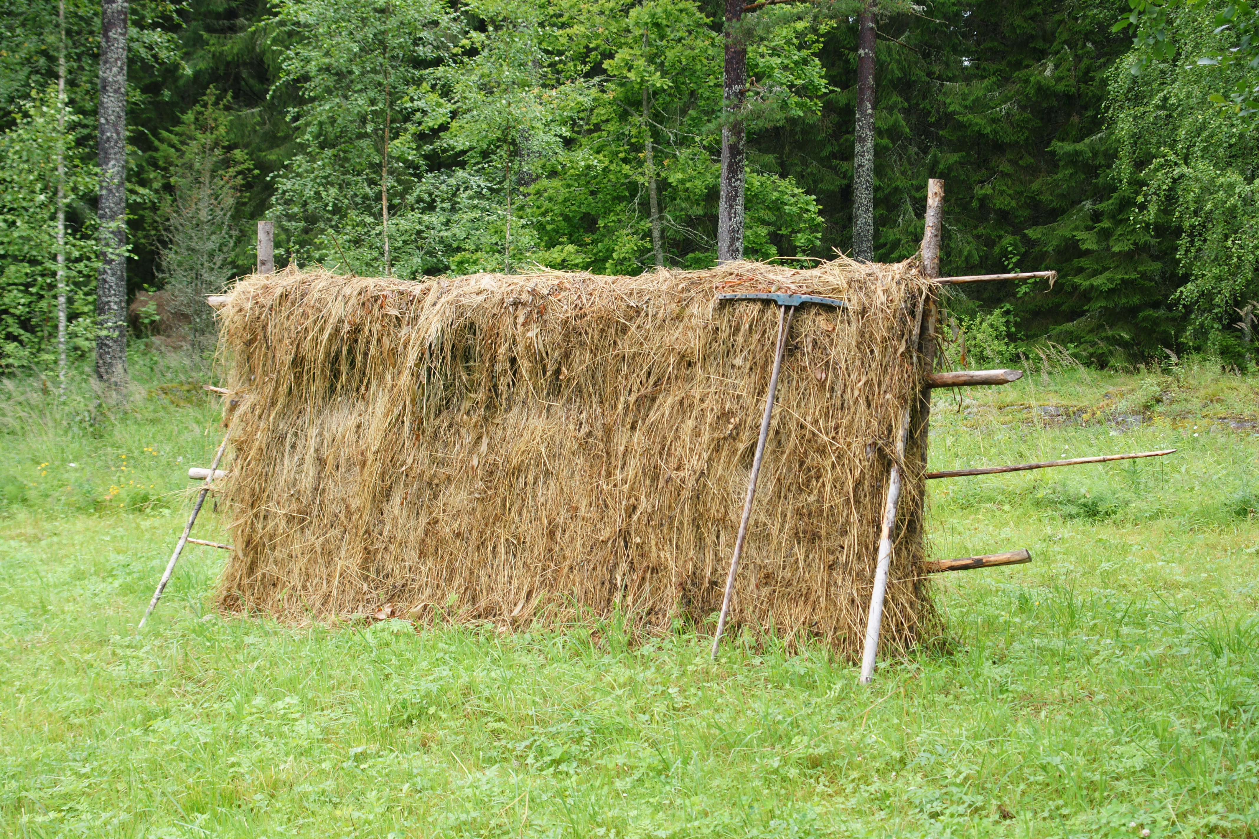 Hayrack in the garden at the Swedish artist Maria Westerberg, summer 2015.